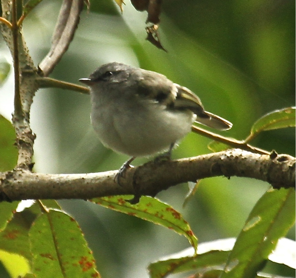 Bellavista Lodge - Ecuador